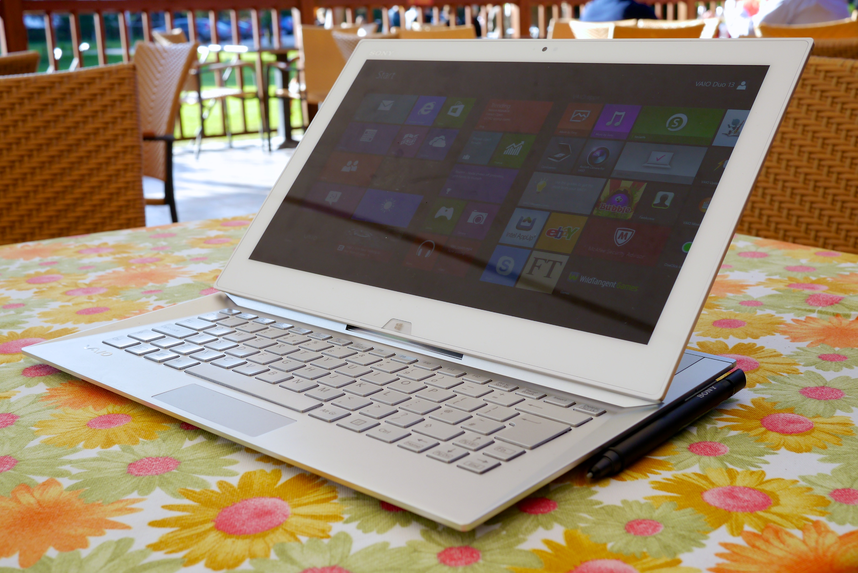 Sony VAIO Duo 13 2-in-1 convertible.